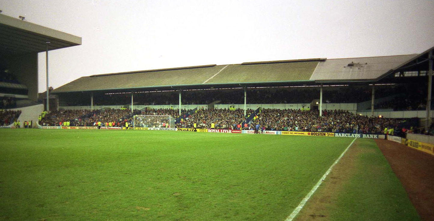 The Park Lane Stand at Tottenham Hotspur in 1991, near to Tottenham, Haringey, Great Britain.